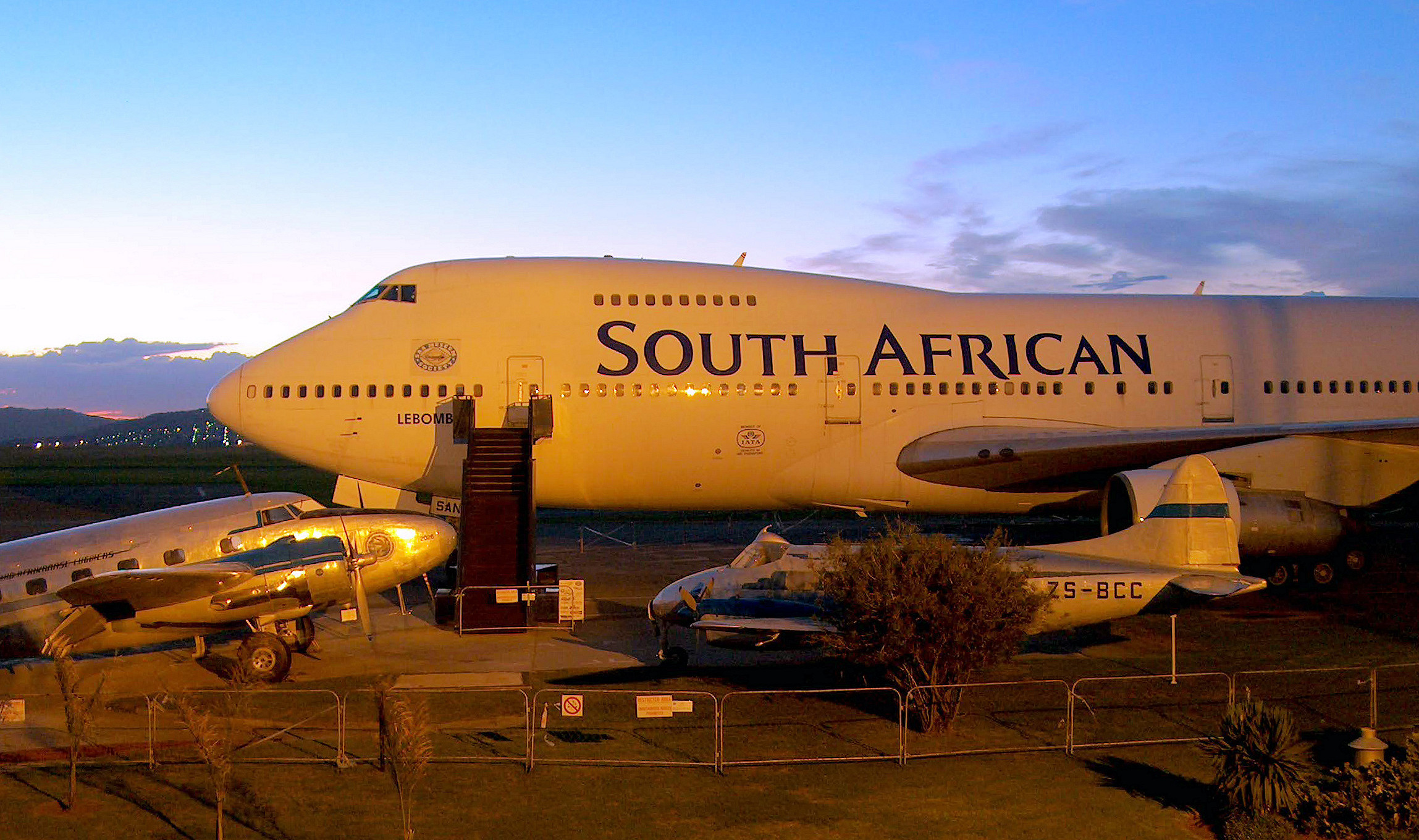 Boeing 747-244B (ZS-SAN) "Lebombo" was donated to the South African Airways Museum Society and was parked in front of the Rand Airport terminal building from 5 March 2004 until she was towed to the SAA Museum Complex at TAC on 19 August 2006.